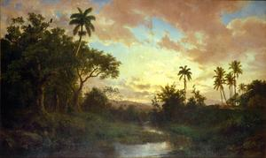 Painting by Spanish-Cuban painter, Miguel Arias Bardou (1841 -1915).